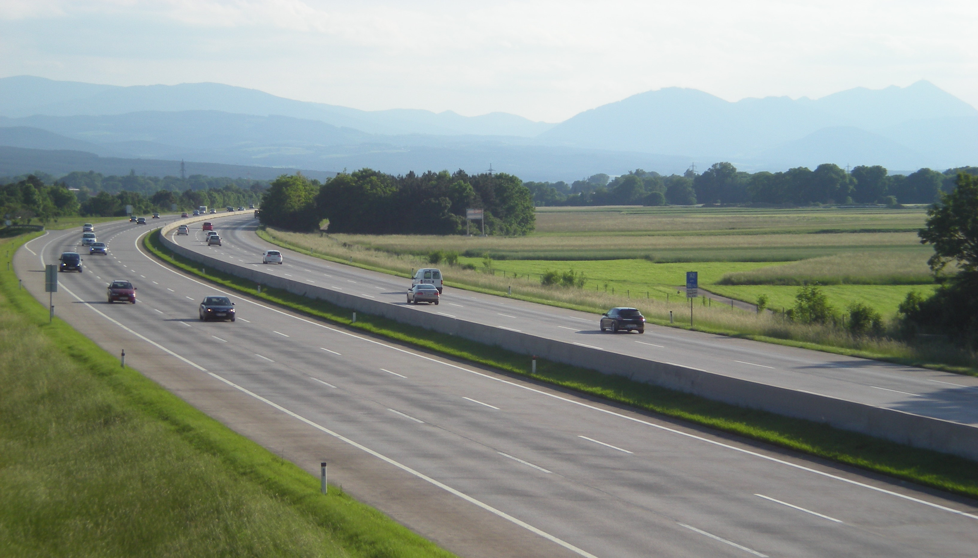 Südautobahn A2 motorway between Wiener Neustadt and Seebenstein, Lower Austria, looking into Graz direction